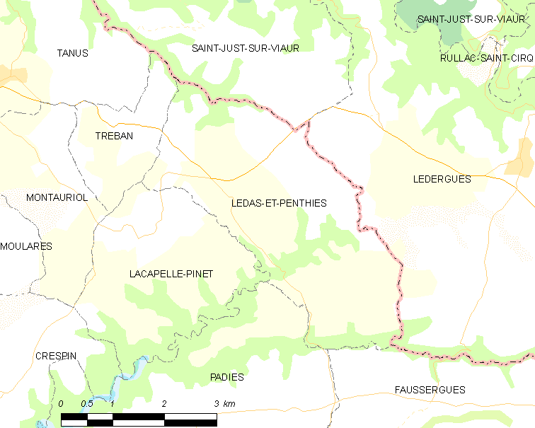 Map of French municipality Lédas-et-Penthiès